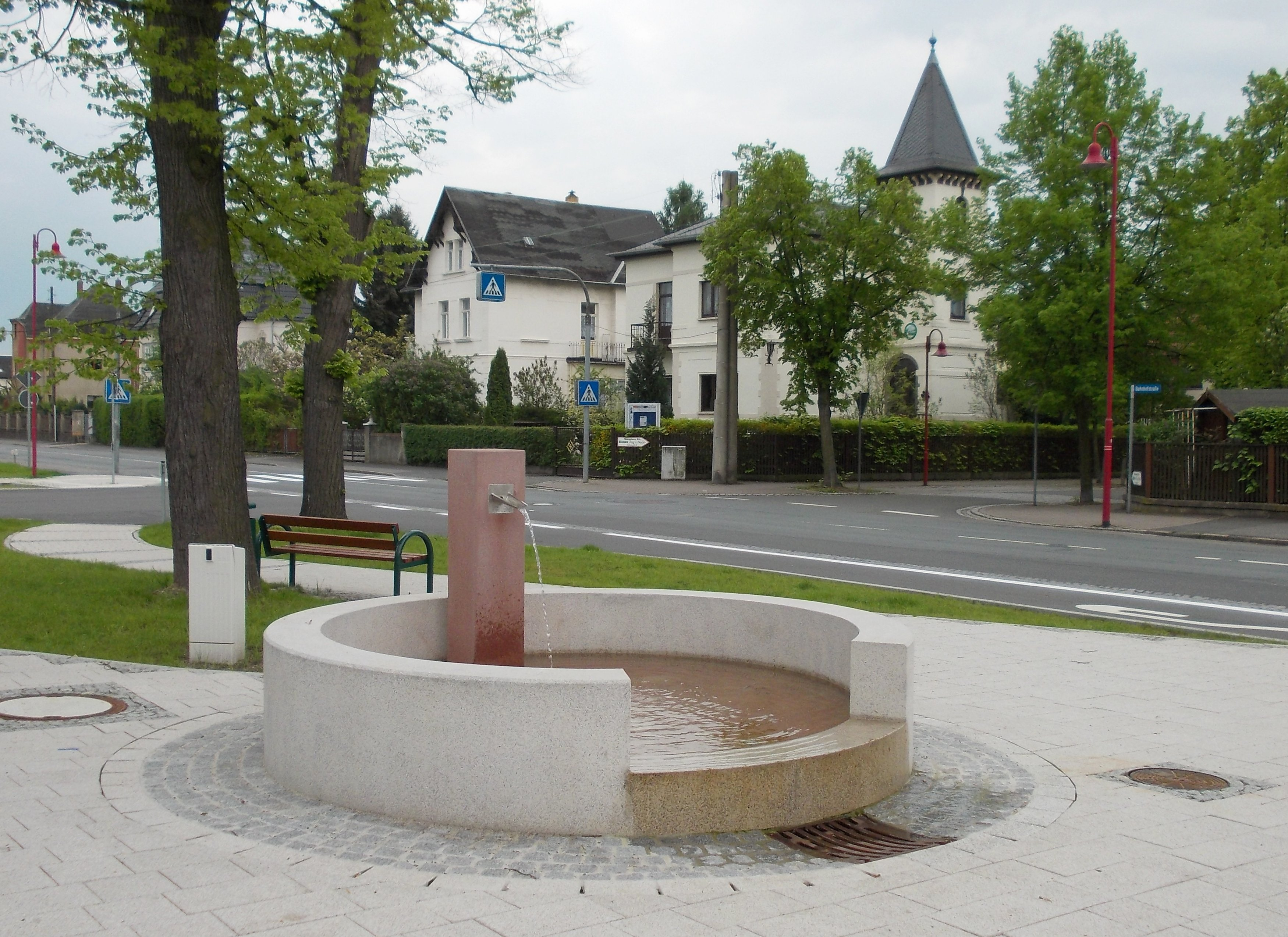 Fountain in front of the train station in Naunhof (Leipzig district, Saxony)